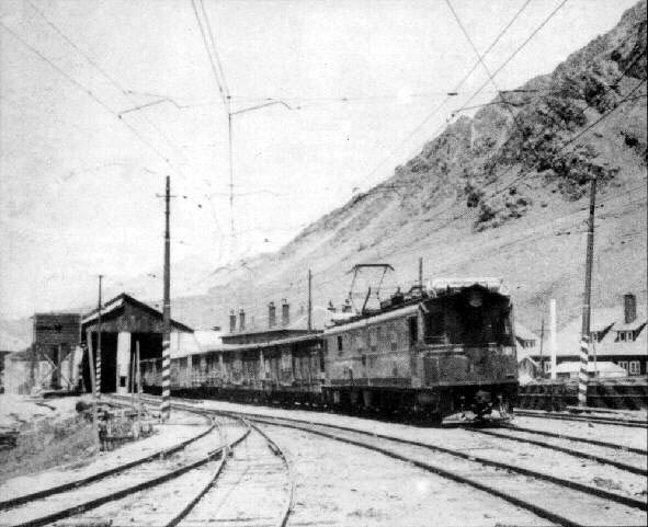 Freight train with loc E-100. Las Cuevas